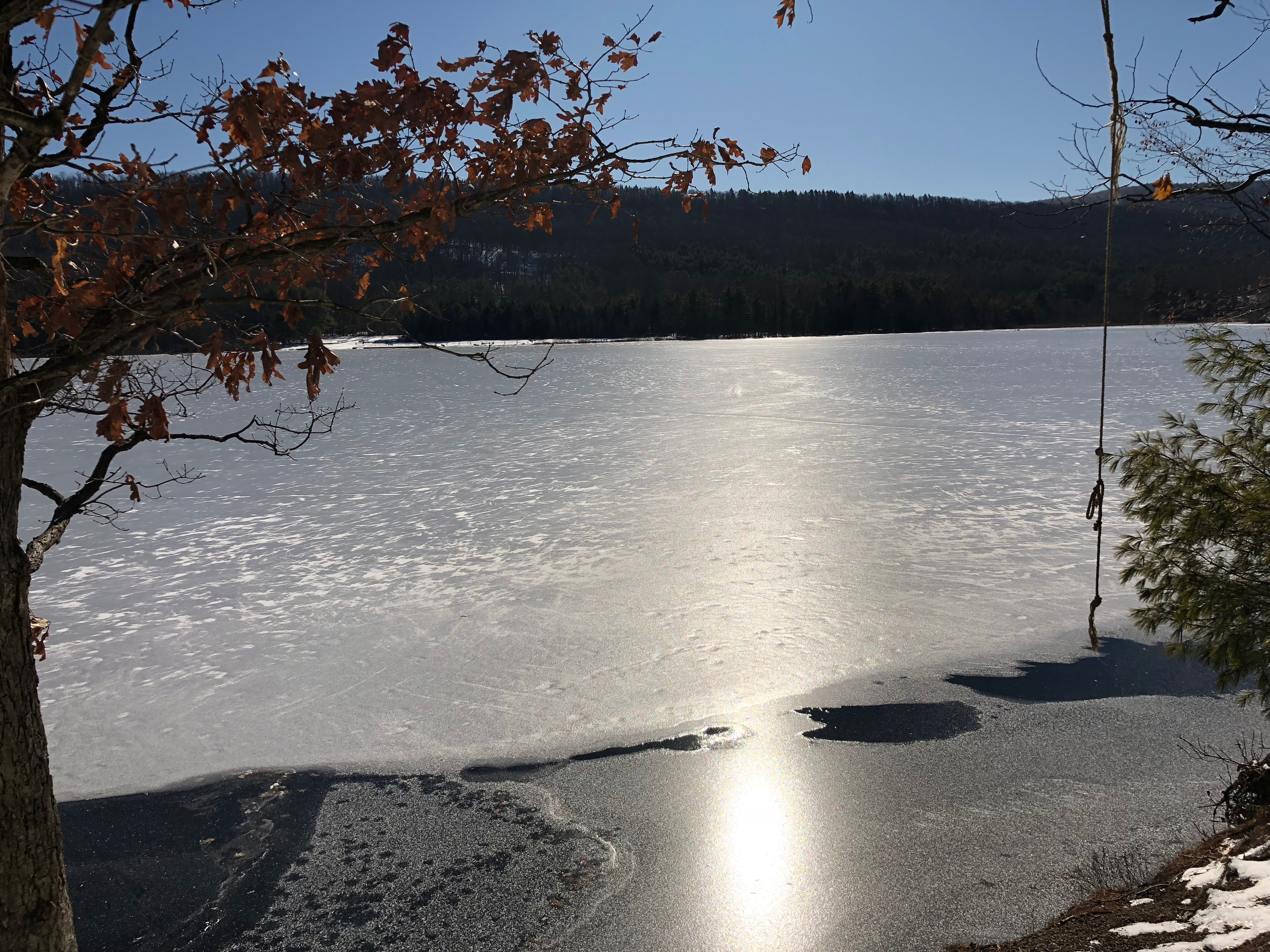 Colyer Lake in mid-winter with a thick coating of ice